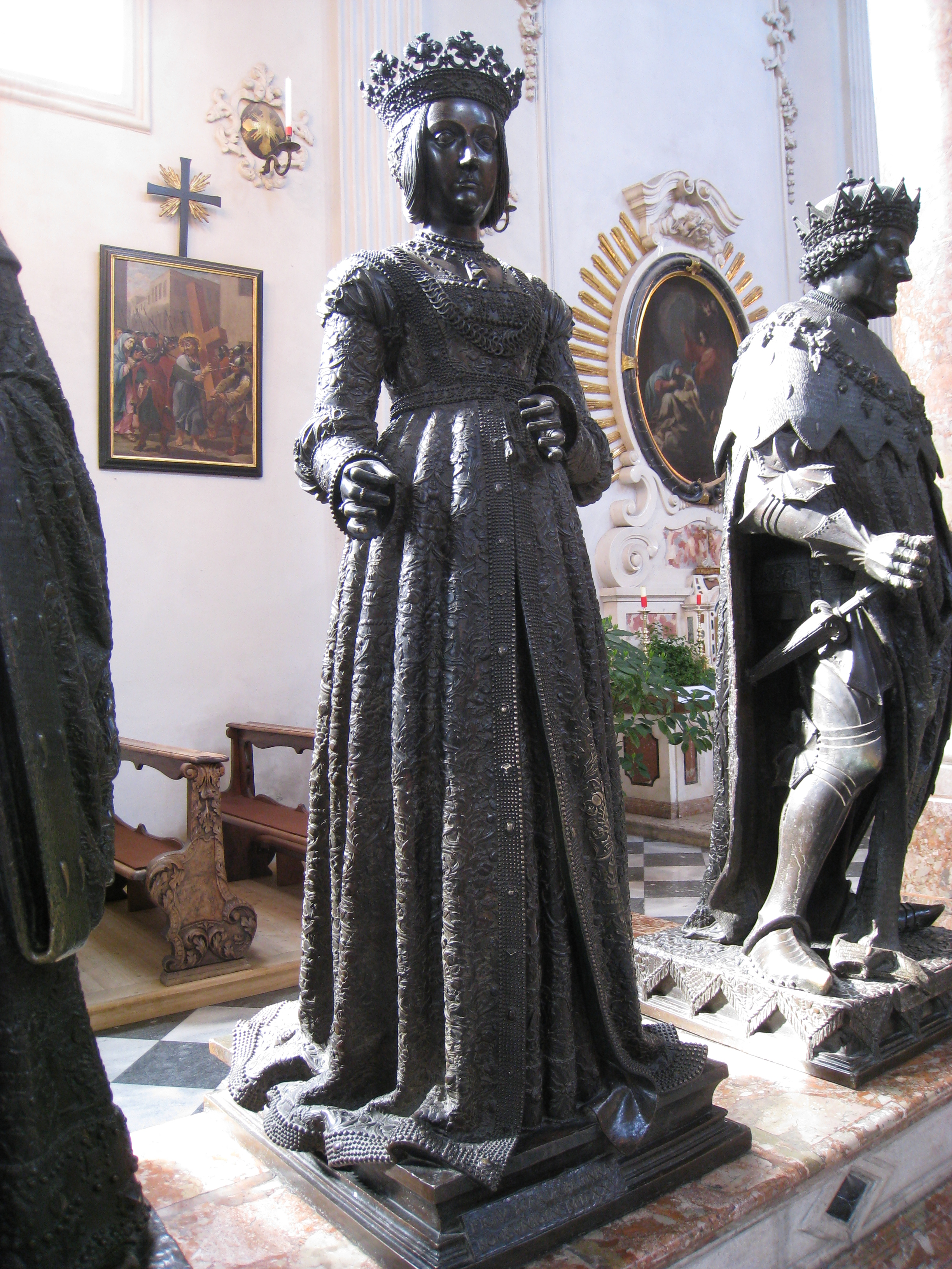 Statue within Hofkirche, Innsbruck, Austria. This statue is old enough so that it is not covered by any copyright.